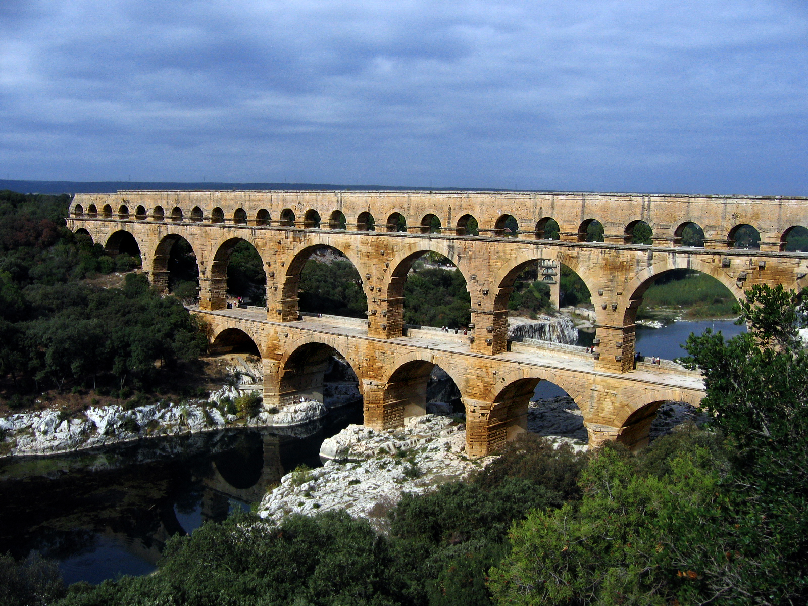 Pont du Gard, Roman Empire, October 2007